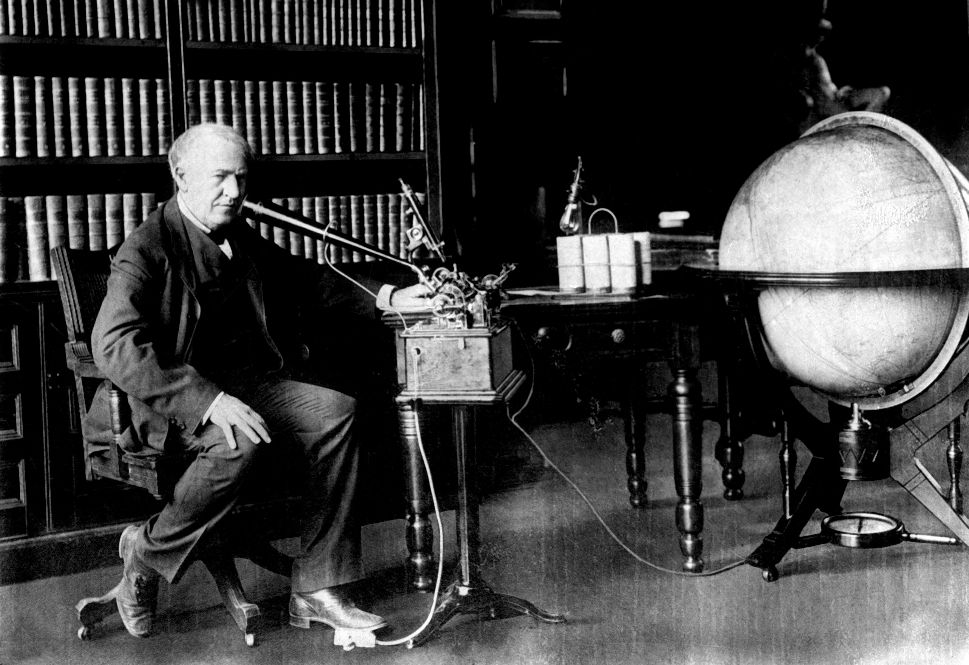 Thomas Edison using a dictaphone, 1907; photo scanned from a 1919 book. Previously uploaded by me to Wikipedia on 03:54, 19 June 2003.